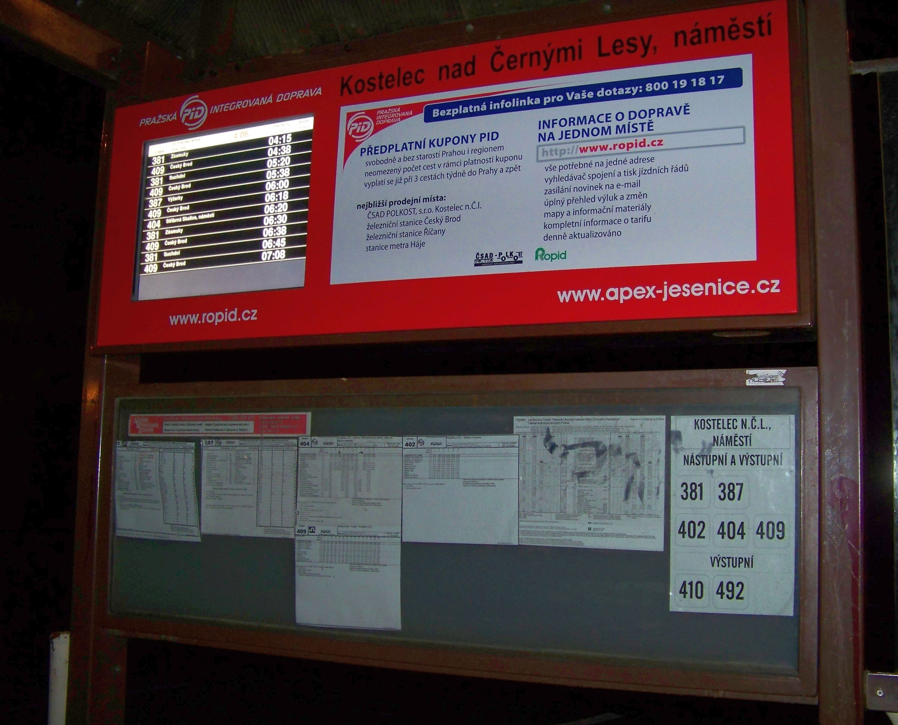 Kostelec nad Černými lesy, Prague-East District, Central Bohemian Region, the Czech Republic. A bus stop.